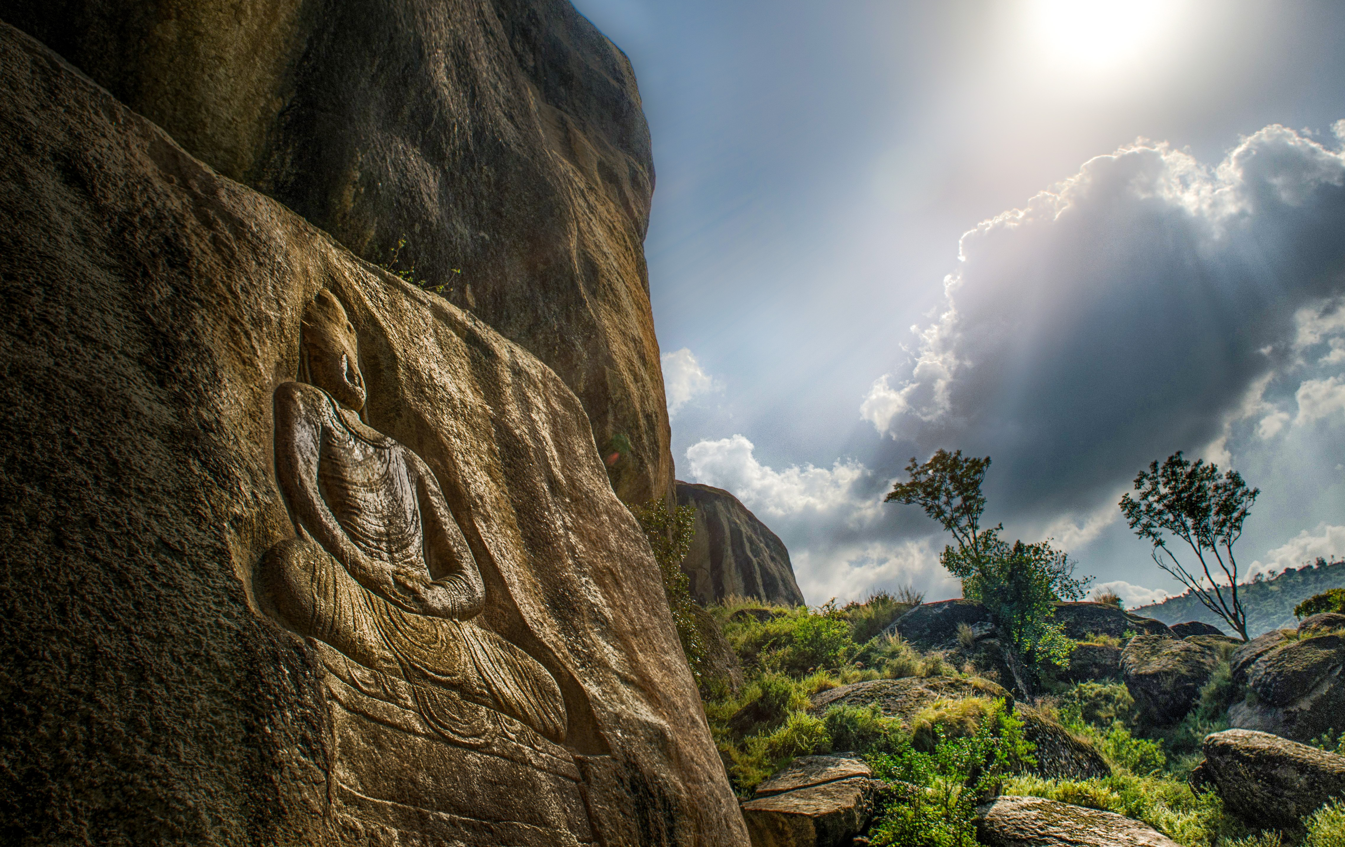 Manglawar stupa This is a photo of a monument in Pakistan identified as the KPK-71